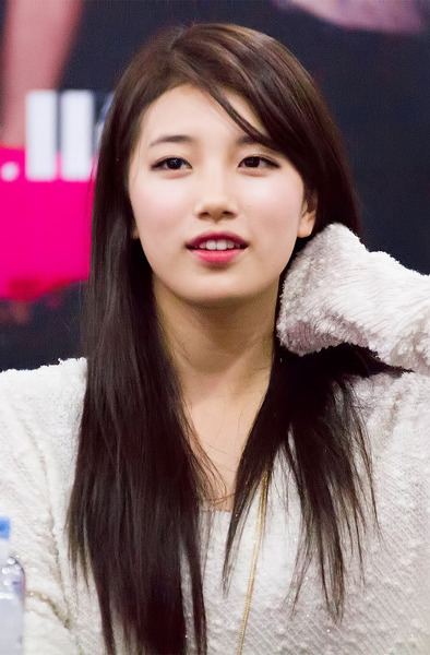 Suzy at Coex fansigning event, 21 October 2012